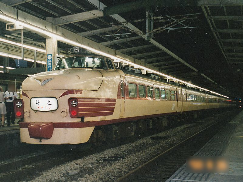 JRWest revival train "Hato" /Type:JR West en:485 series / Location:Hakata Station, Hakata Ward, Fukuoka City, Fukuoka, Japan.